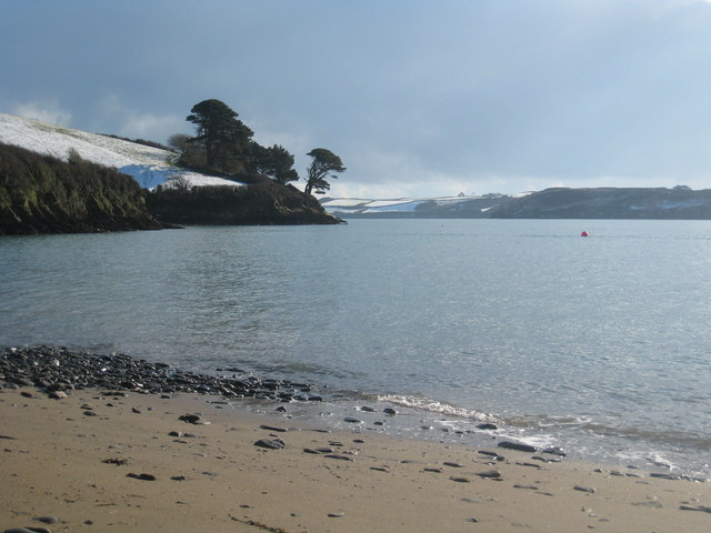 Porth Sawsen beach. Identified as Porth Saxon on the OS map but known locally as Porth Sawsen, this beach lies at the foot of the beautiful Carwinion Valley, a sheltered southerly facing valley which contains many sub-tropical plants which have self-set from the gardens of Carwinion House. Snow is a great rarity in this location and there had been a snowfall of about 50mm on the previous day.